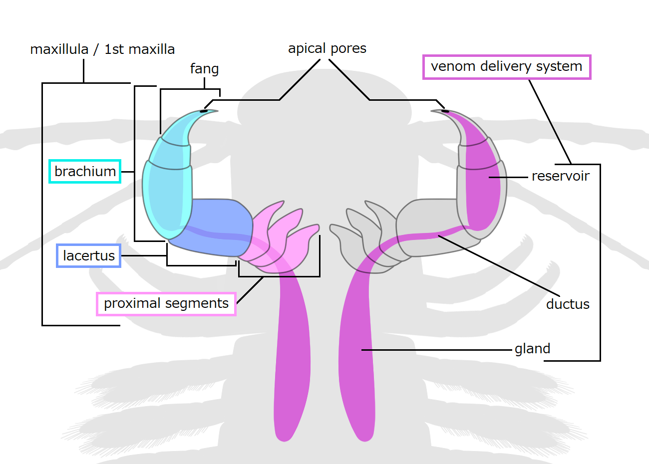 Maxillula/first maxilla and venom delivery system of a nectiopodan remipede (Remipedia: Nectiopoda).